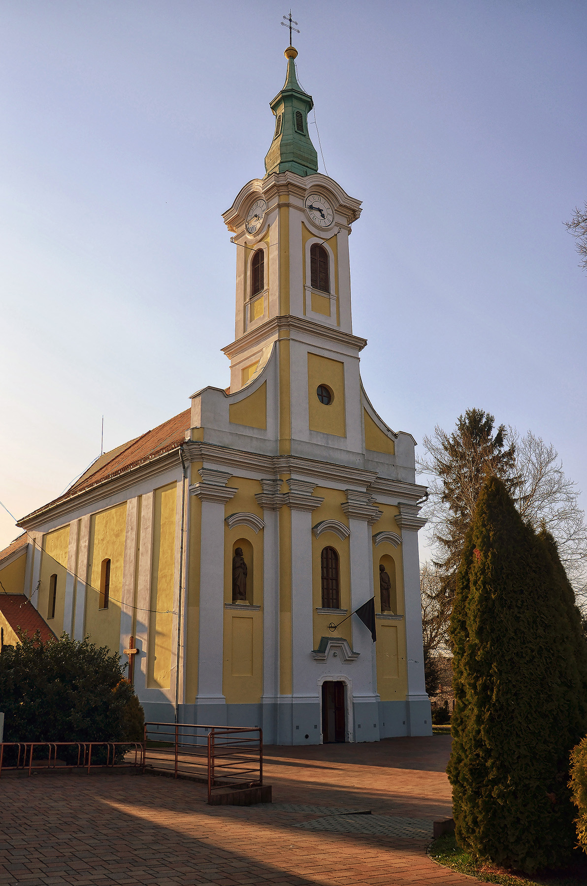 Letenye, Hungary, the Holy Trinity Church